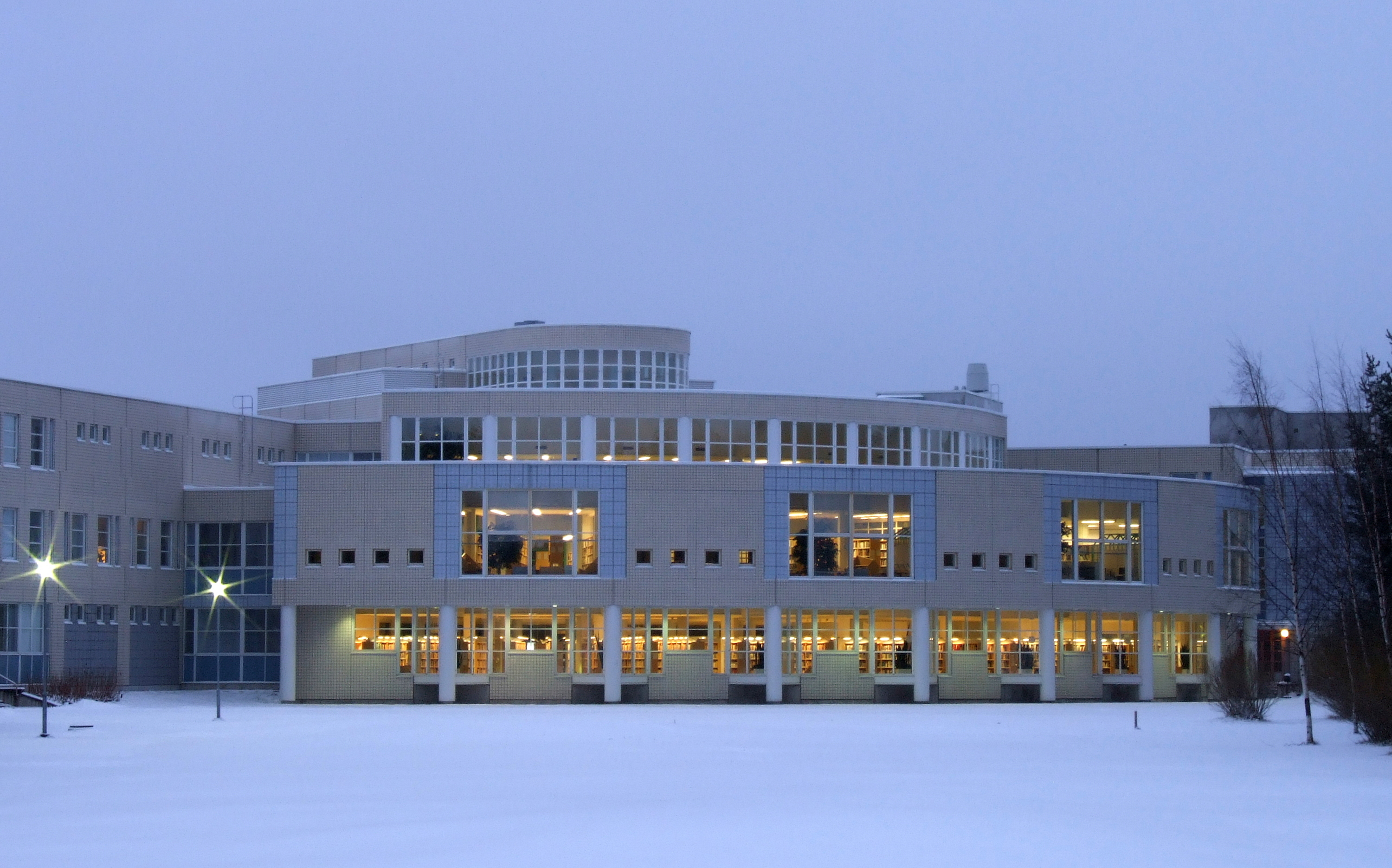 University of Oulu, Pegasus Library (former Main Library) in Linnanmaa, Oulu, Finland. The library building was designed by architect Kari Virta (built in 1987).